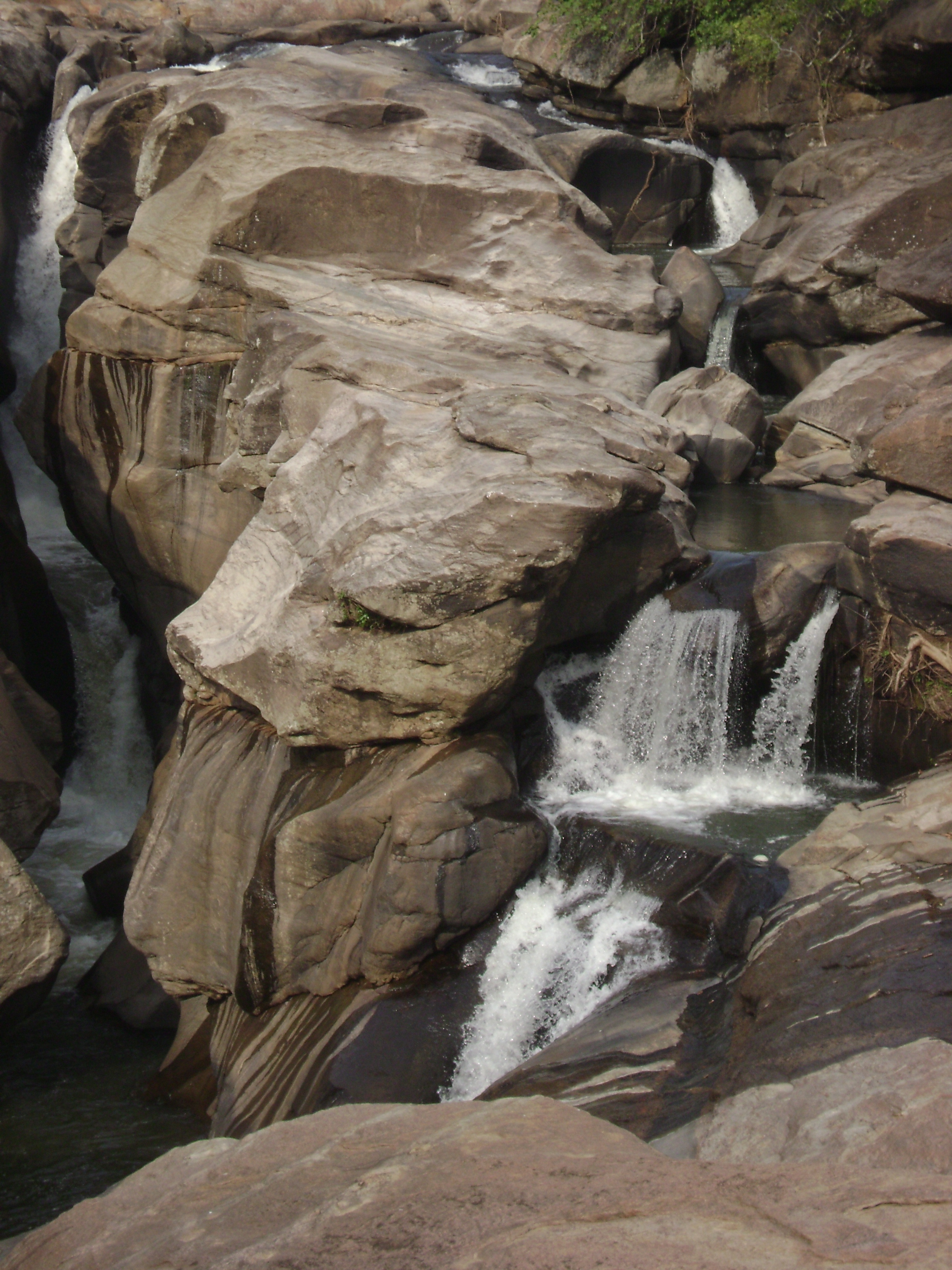 20 m. Ananthoni Falls Between Talinji and Manjampatti villages on the Ten Ar River, Manjampatti Valley, Indira Gandhi National Park, 10 deg 17.57' N 77 deg 16.07' E